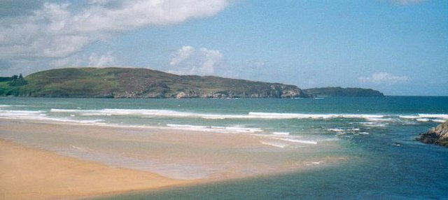 Mouth of the River Naver. The Naver reaches the Atlantic Ocean at Torrisdale Bay. On this August afternoon there were press reports of crowded beaches at Brighton and Bournemouth. Here we counted 3 people and one horse.